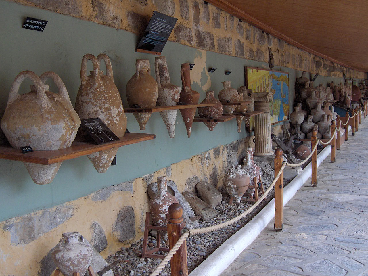 Collection of amphoras from different parts of the Mediterranean, St. Peter's castle; Bodrum, Turkey